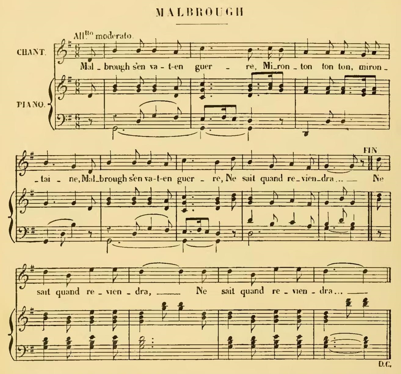 Weckerlin (1870) Malbrough